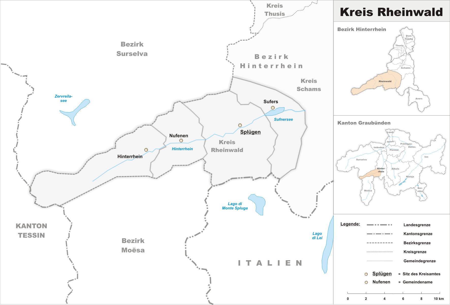 Municipalities in the circle of Rheinwald